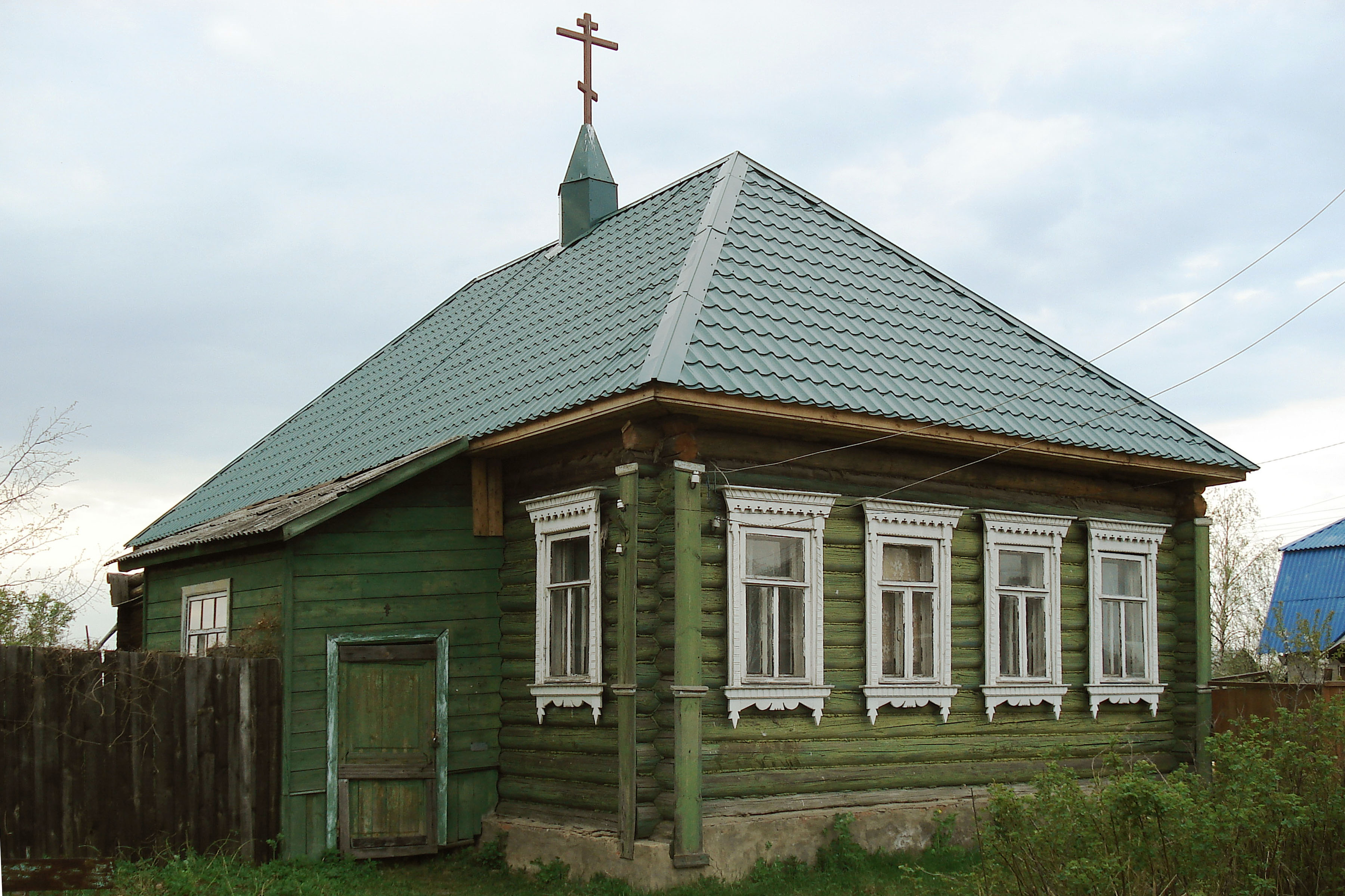 Old Believers' Chapel in the village of Abramovka. Orekhovo-Zuyevsky District of Moscow Oblast, Russia.